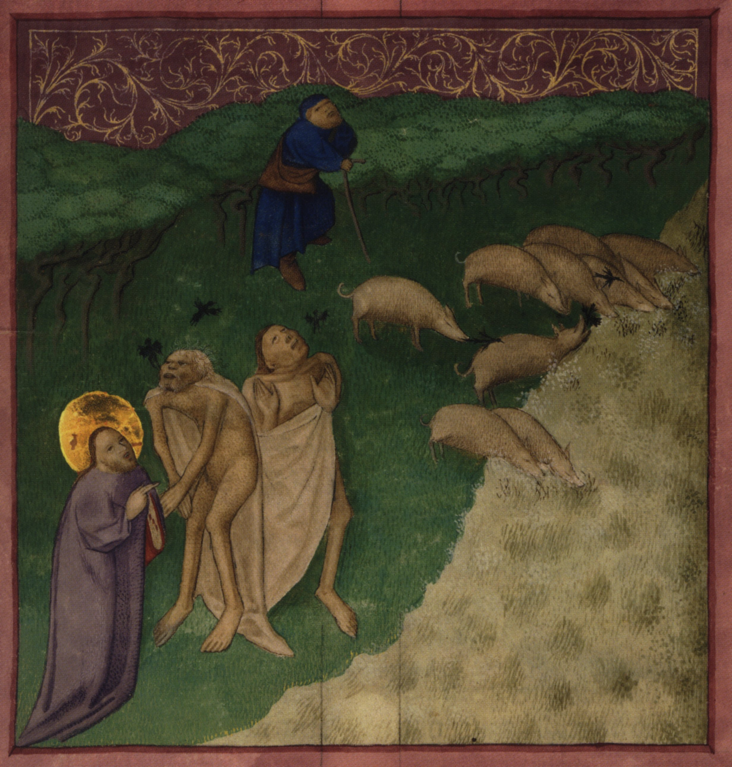 Page 18v: Healing of the two demon-possessed, Mt 8:28-34